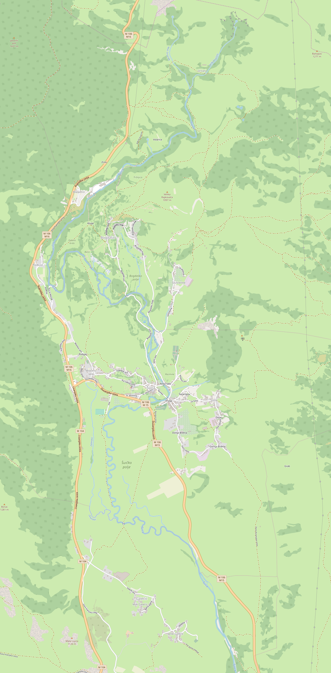 OpenStreetMap of Šujica Valley